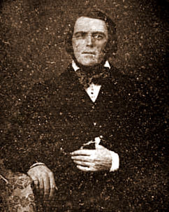 Daguerreotype of Joe Rolette